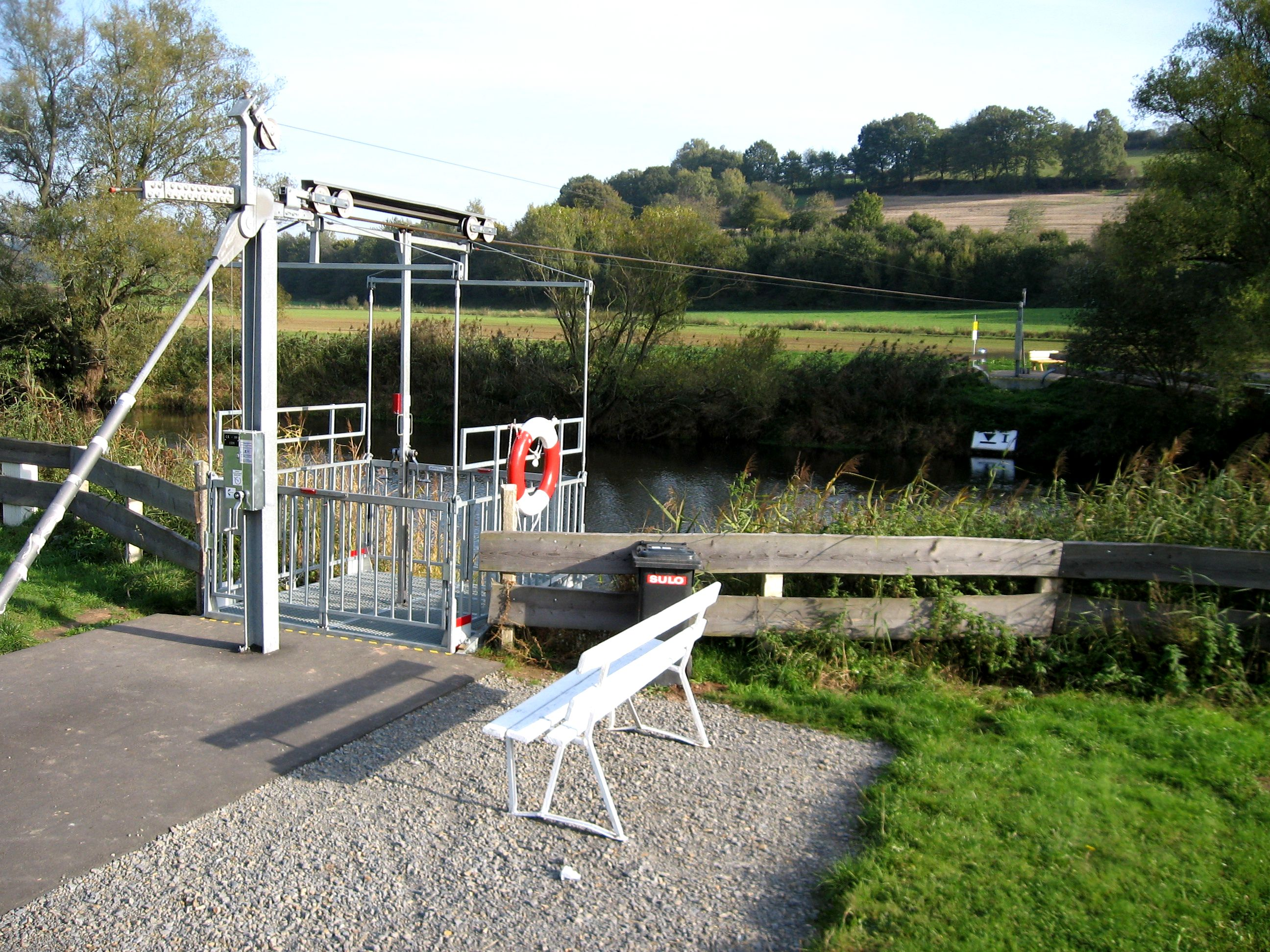 cycle cableway about the river Fulda in Germany